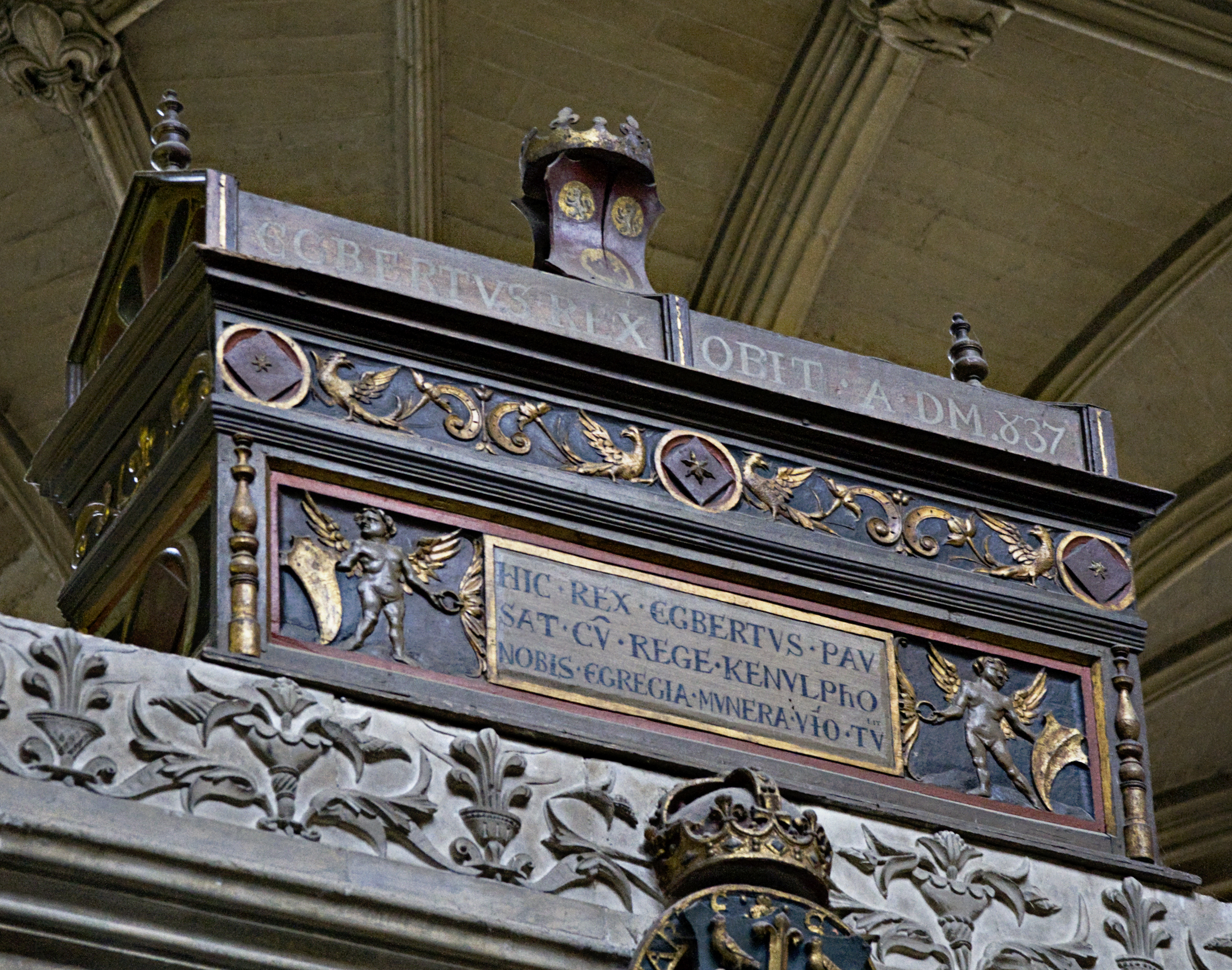 Mortuary chest from Winchester Cathedral, Winchester, England. This is one of six mortuary chests near the altar in the Cathedral, this one purports to contain the bones of Egbert of Wessex. d. 839, along with others. See here for more details.